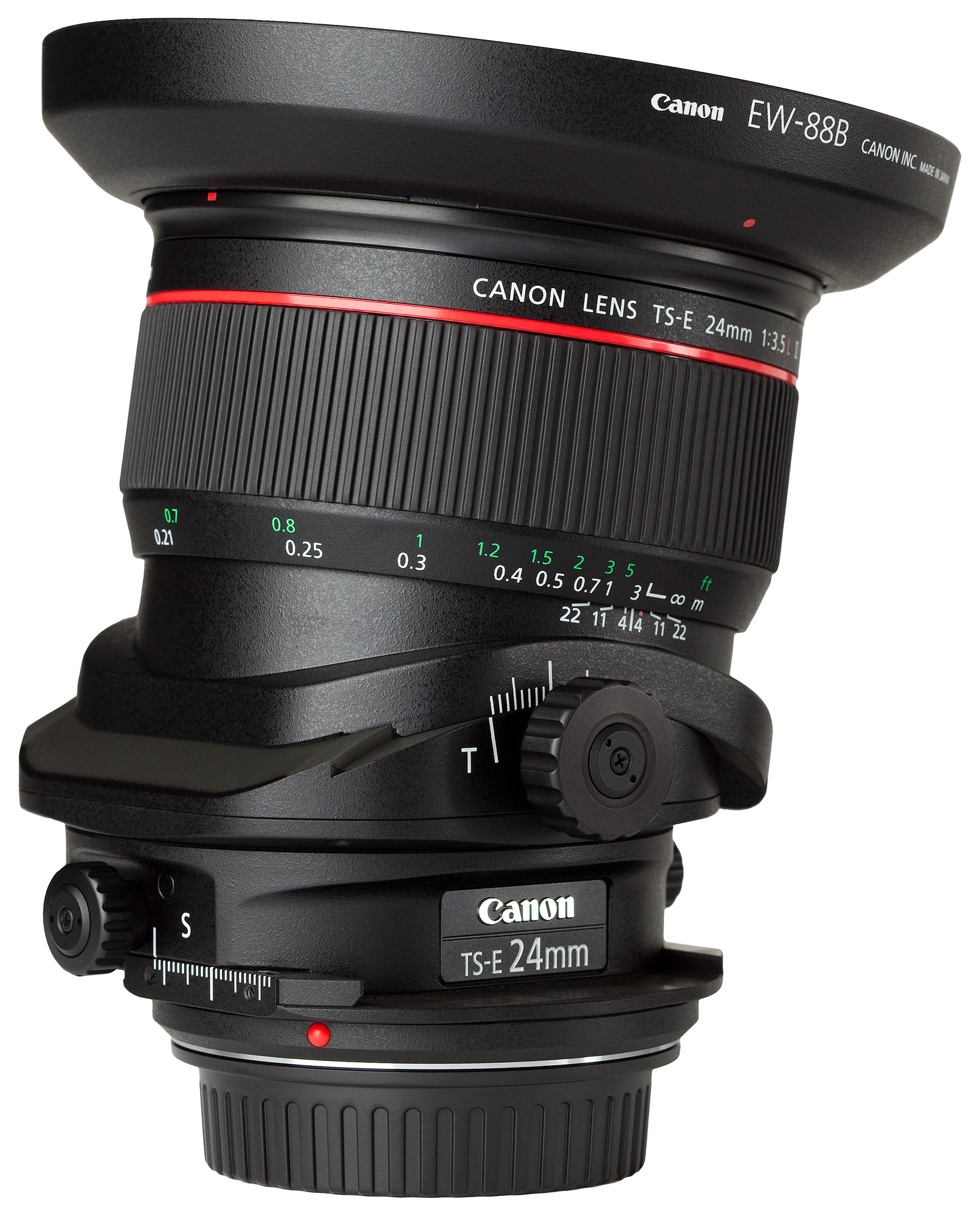 Canon TS-E 24mm f/3.5L II lens, with its hood in place.